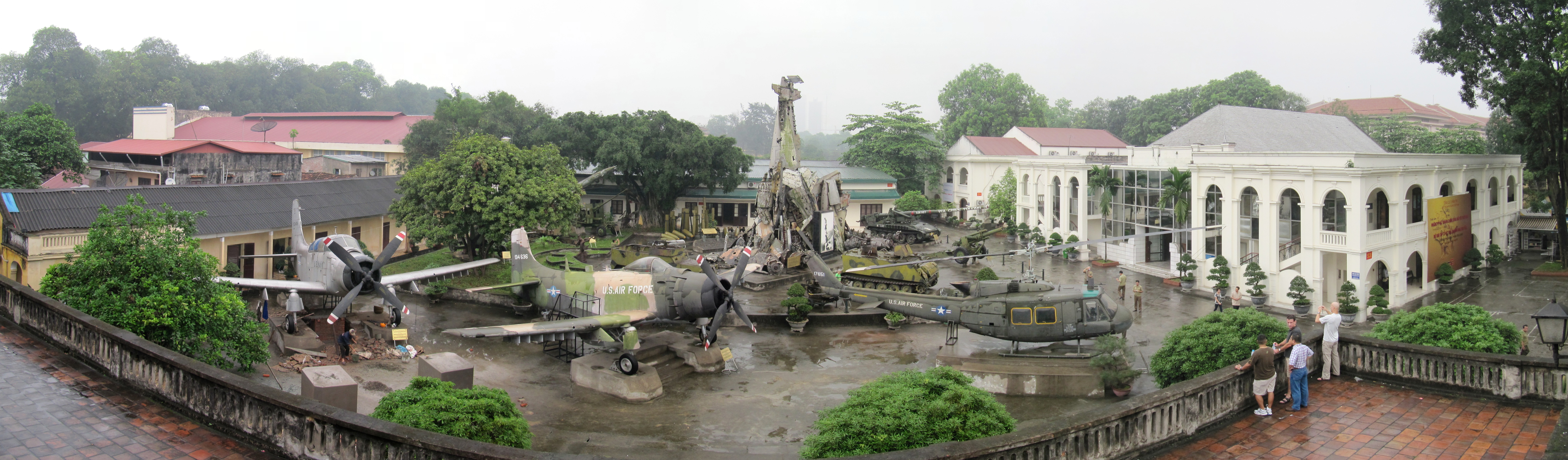 The outdoor exhibition of the Vietnam Military History Museum.